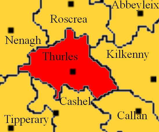 Outline map of Thurles Poor Law Union, based on information in this page web page